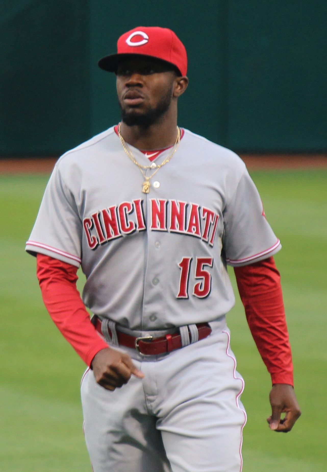 Photo of Derrick Robinson, 2013-06-25, Oakland CA